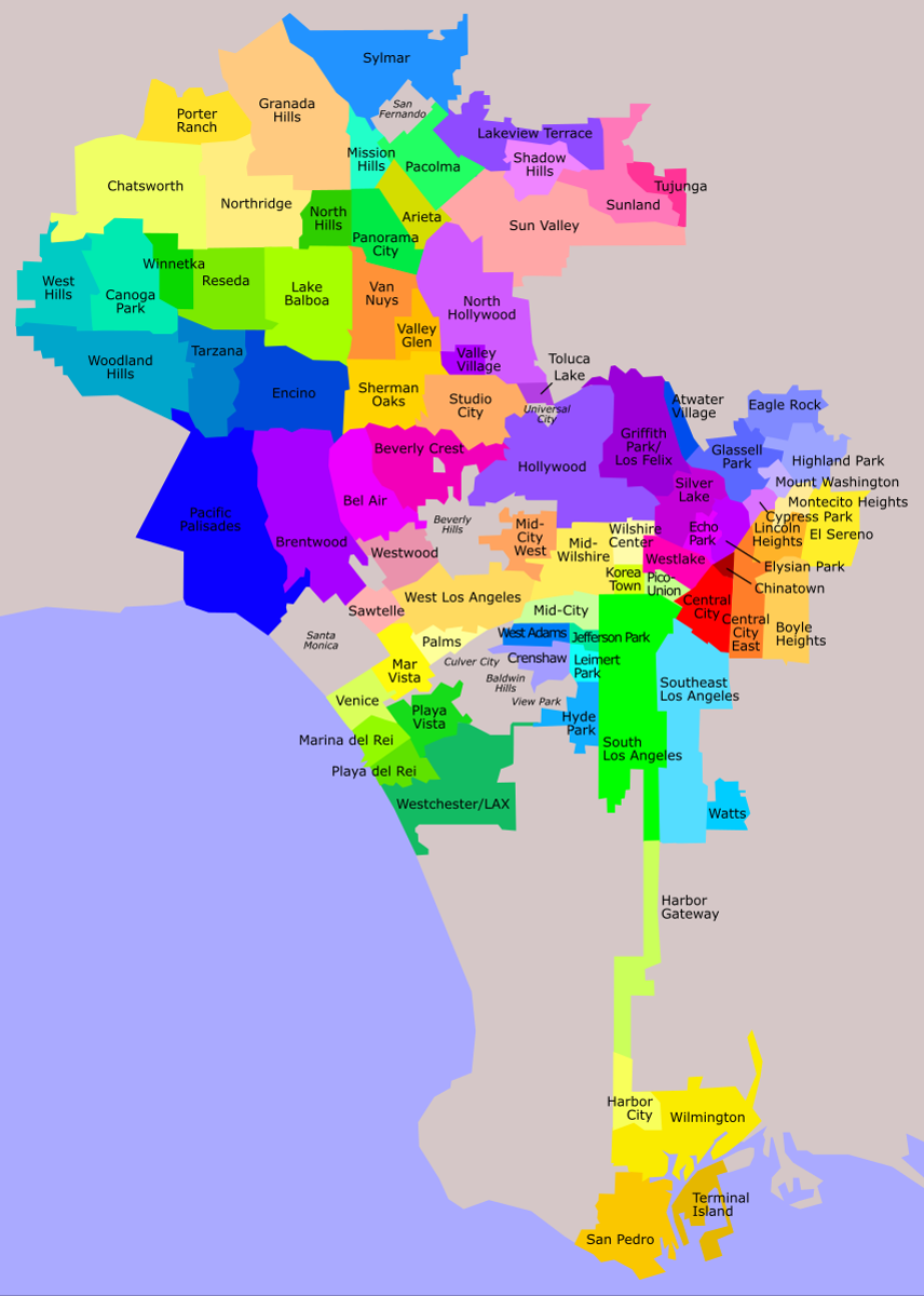 the neighborhoods of Los Angeles